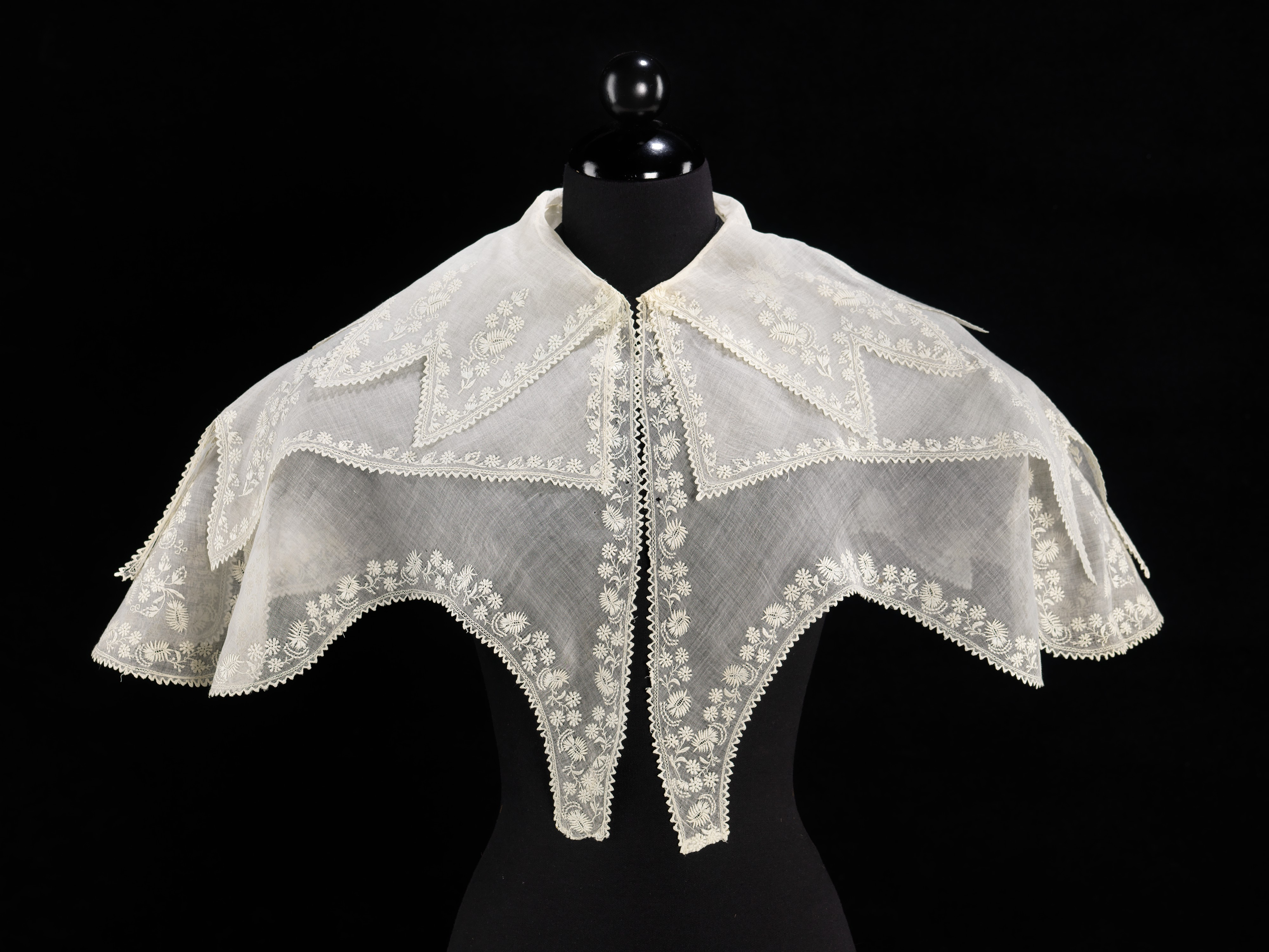 Pelerine, cotton, ca. 1835